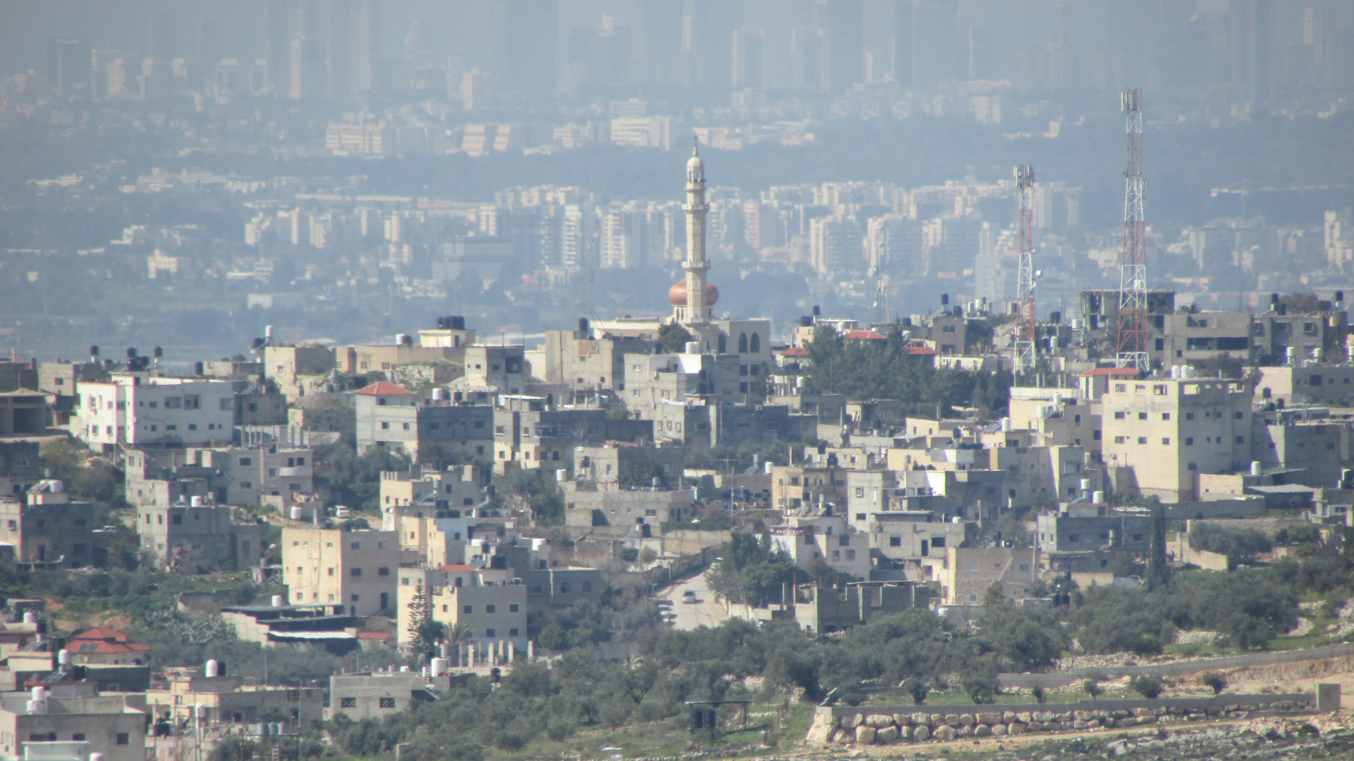 Qibya from Nili